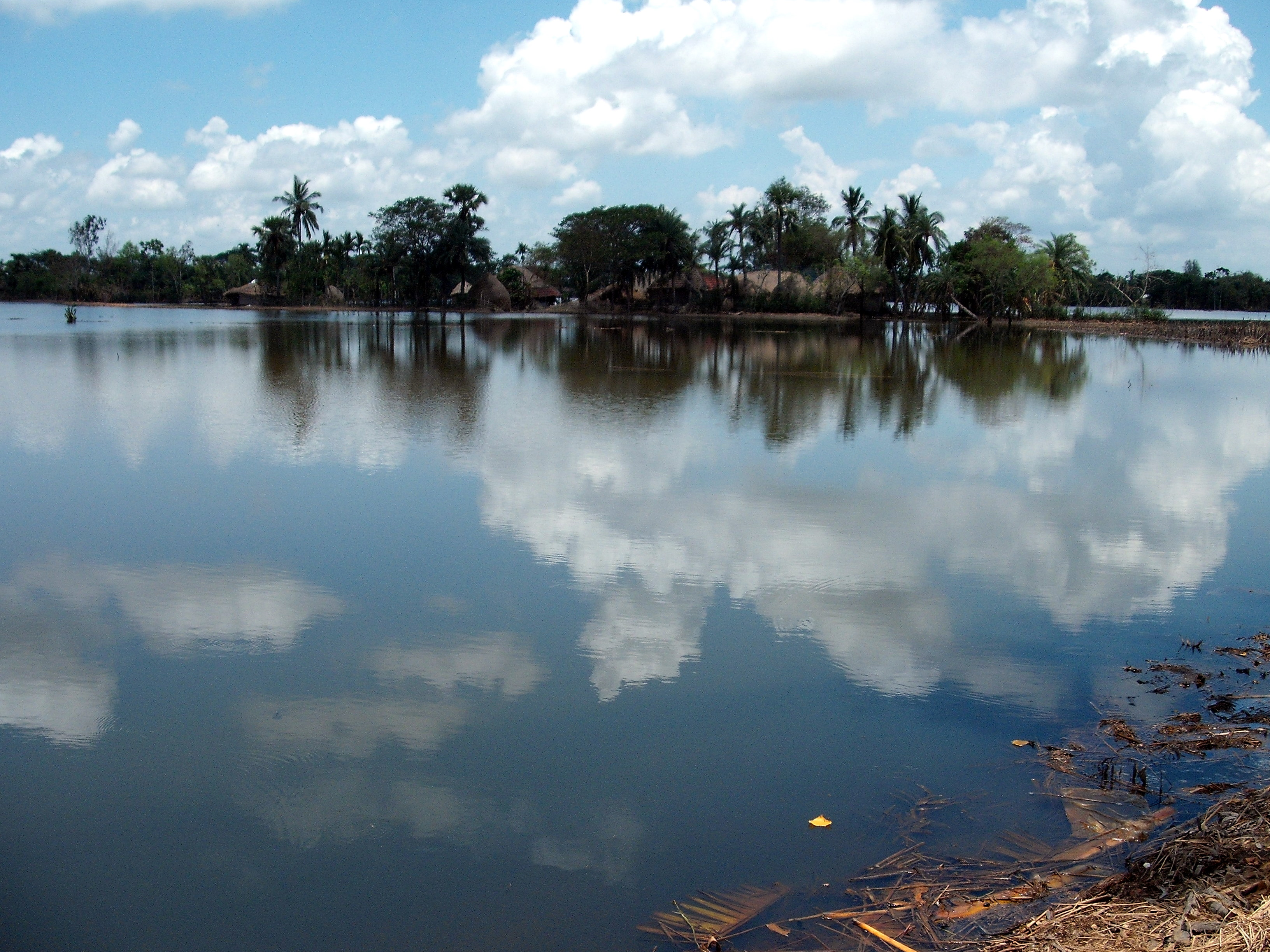 Picture of paddy field in Sunderban, submerged after cyclone Aila.